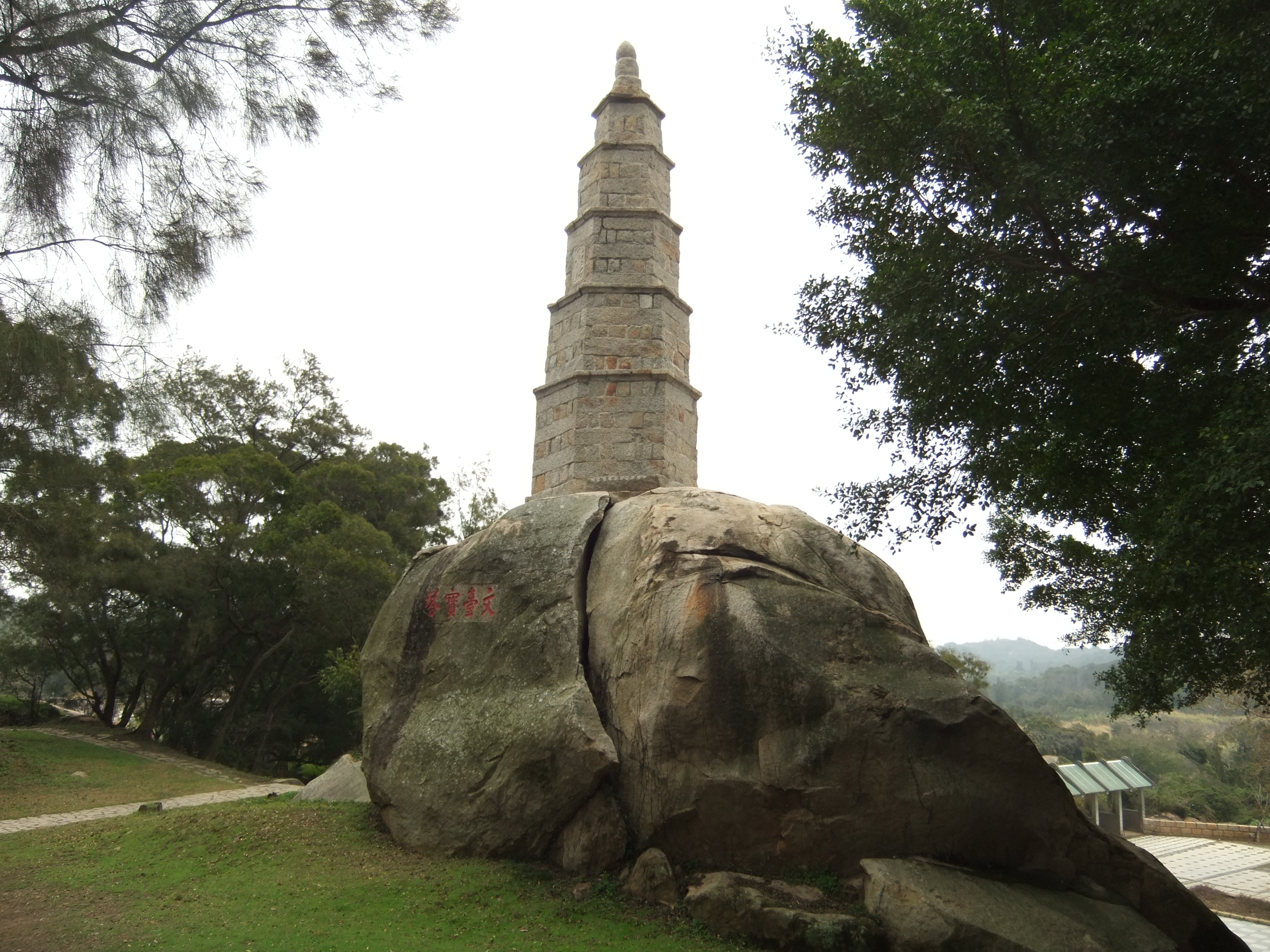 Wentai Pagoda, Kinmen.